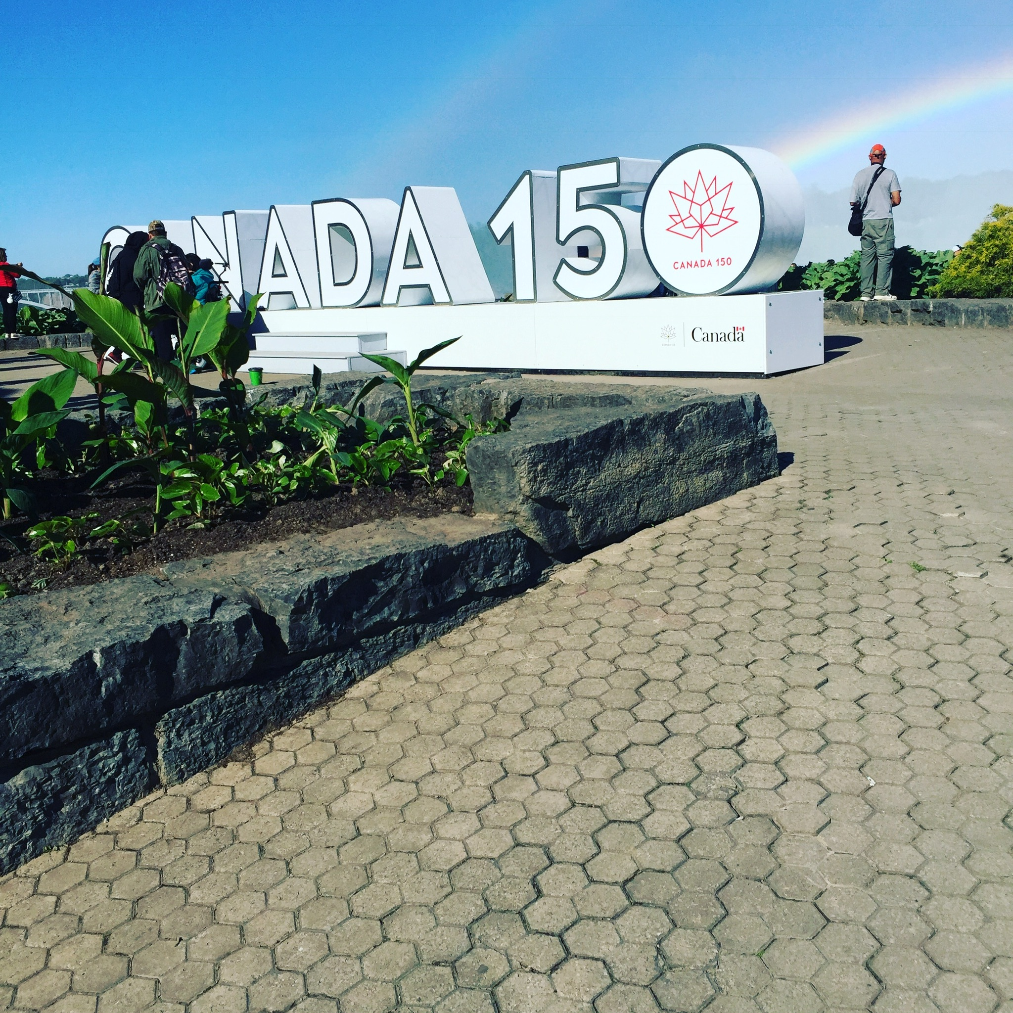 View of the Horseshoe falls from the Welcome Center in Niagara Falls Canada, Queen Victoria Park, Niagara Parks Commission, June 2017